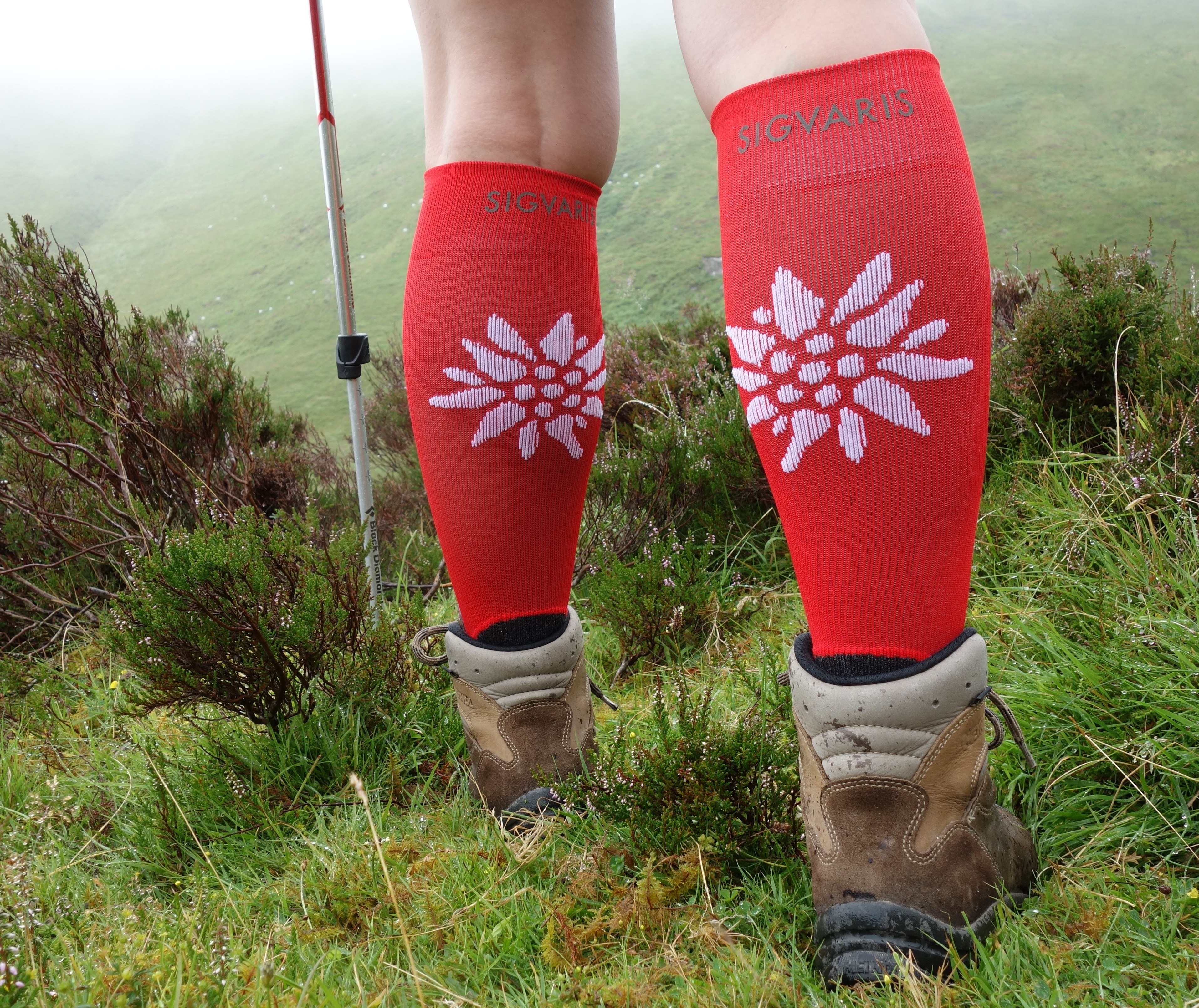 Compression Stockings for hiking and trekking